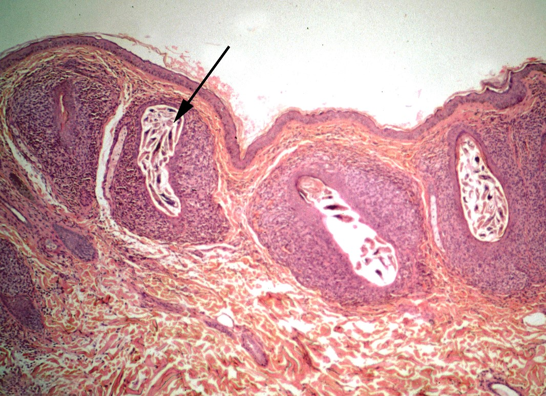 Demodex mites infesting hair follicles within body of the skin of their host, causing infiltration of inflammatory cells around the follicles.